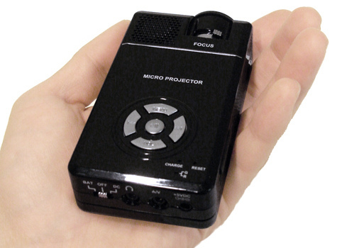 aaxatech P1 pico projector